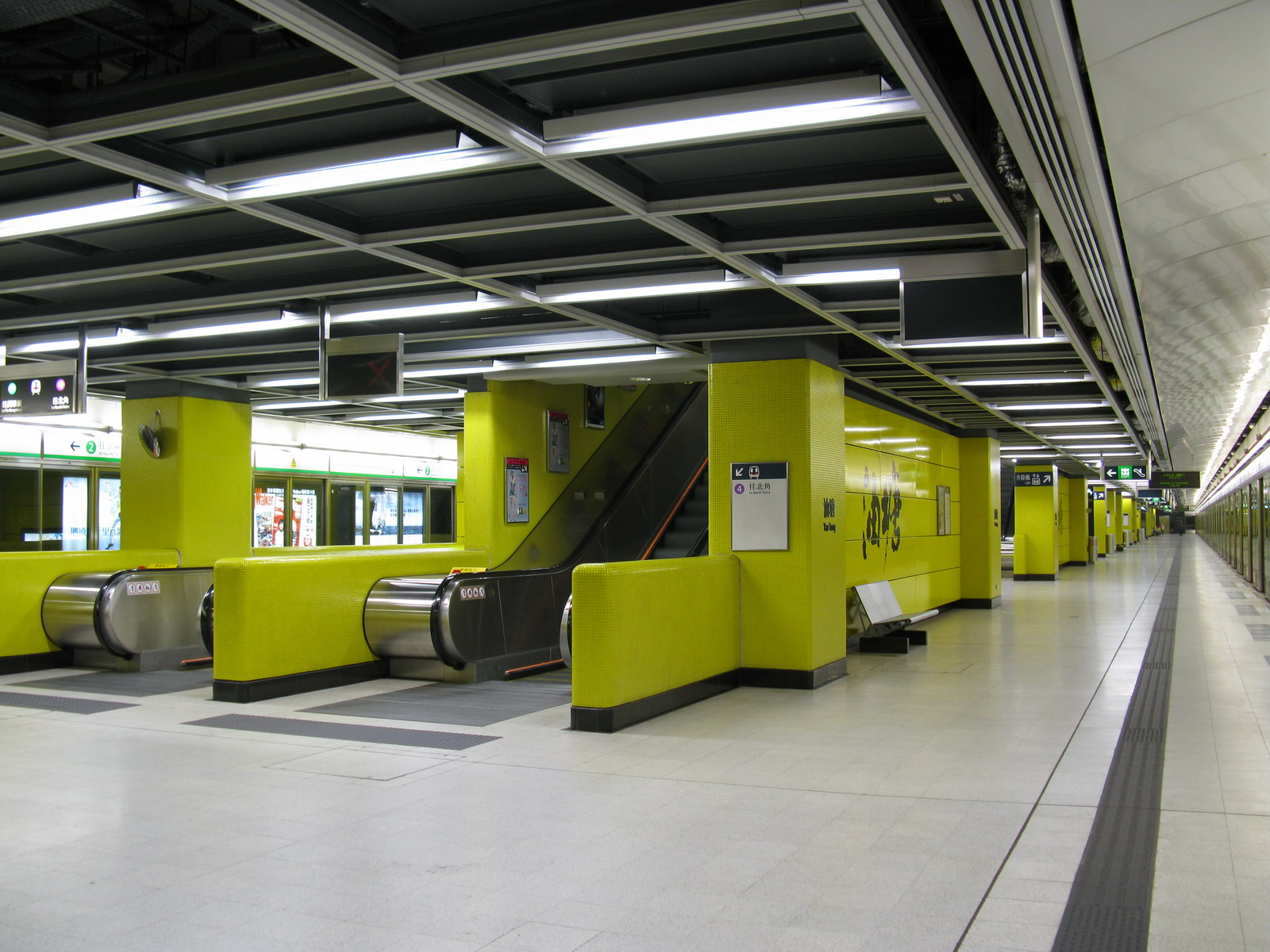 Yau Tong Station,U2 level platform